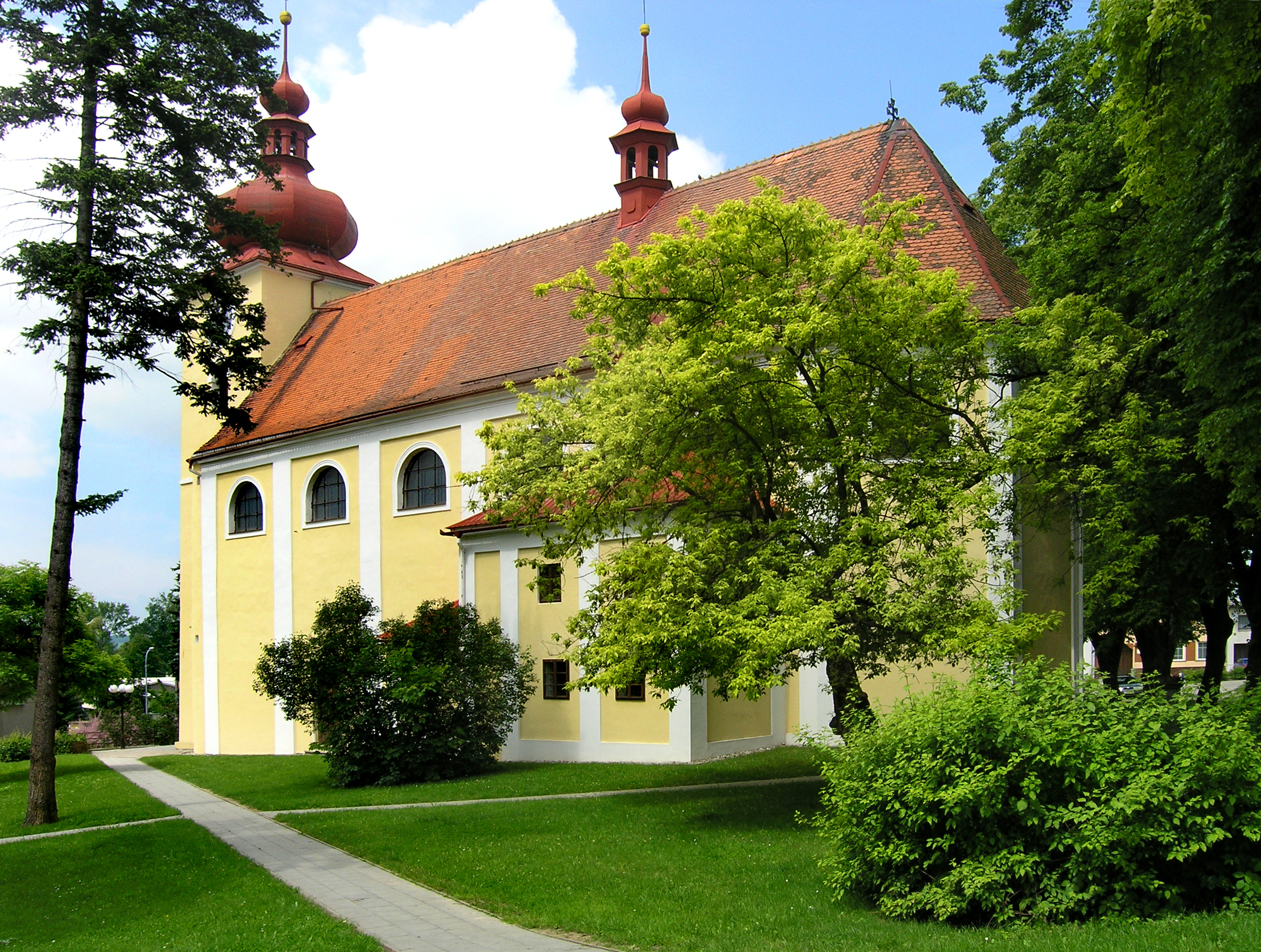 Church in Morkovice-Slížany, Czech Republic